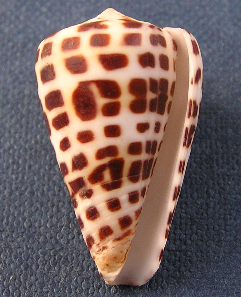 Conus eburneus Hwass in Bruguière, 1792 , a cone snail from the family Conidae; Philippines